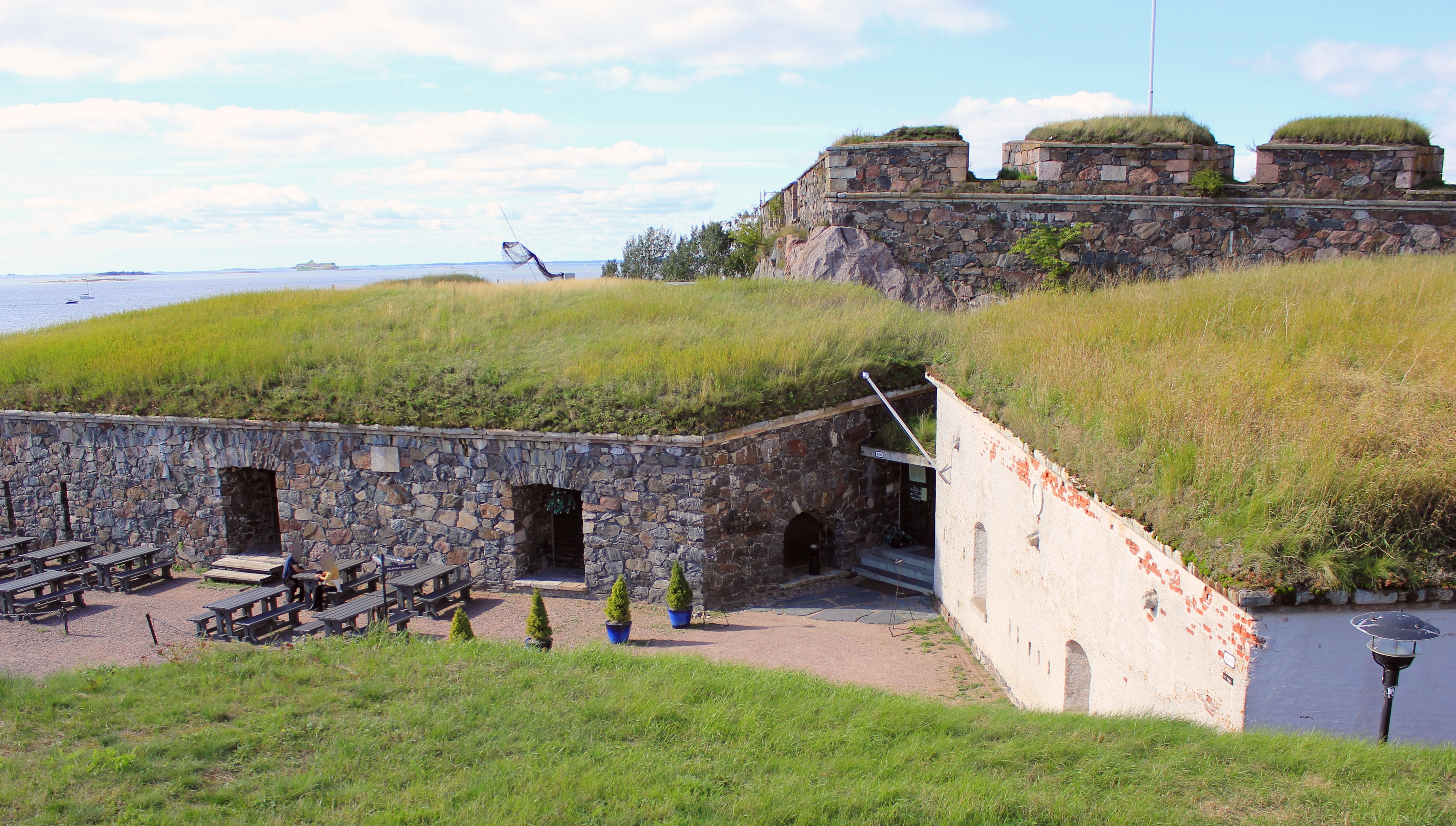 Erection A10 in Suomenlinna, Helsinki, Finland, early Fall 2011.